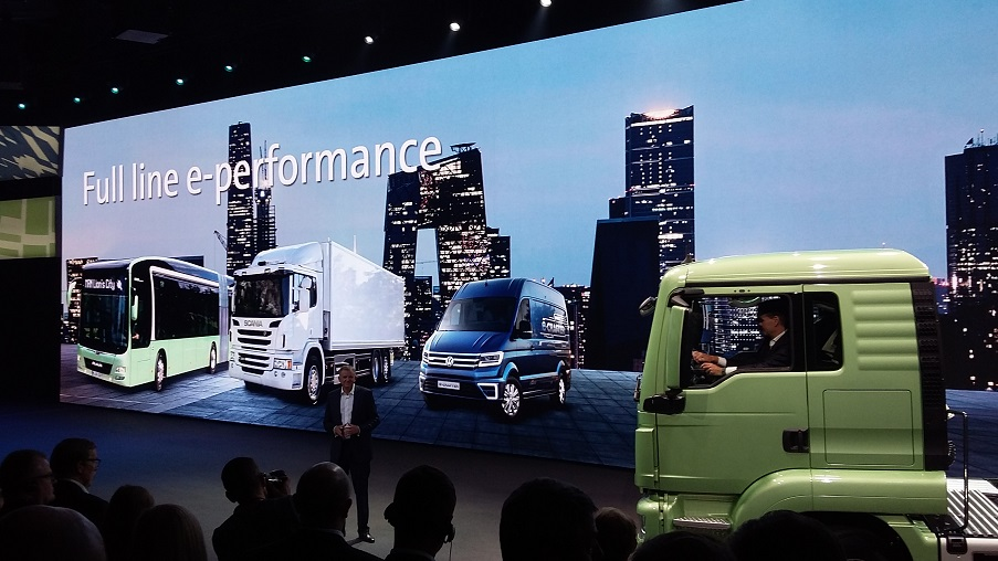 Fahrzeuge von Volkswagen Truck & Bus mit elektrischen Antrieben